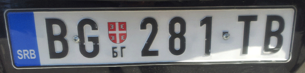 Vehicle registration plate of Serbia